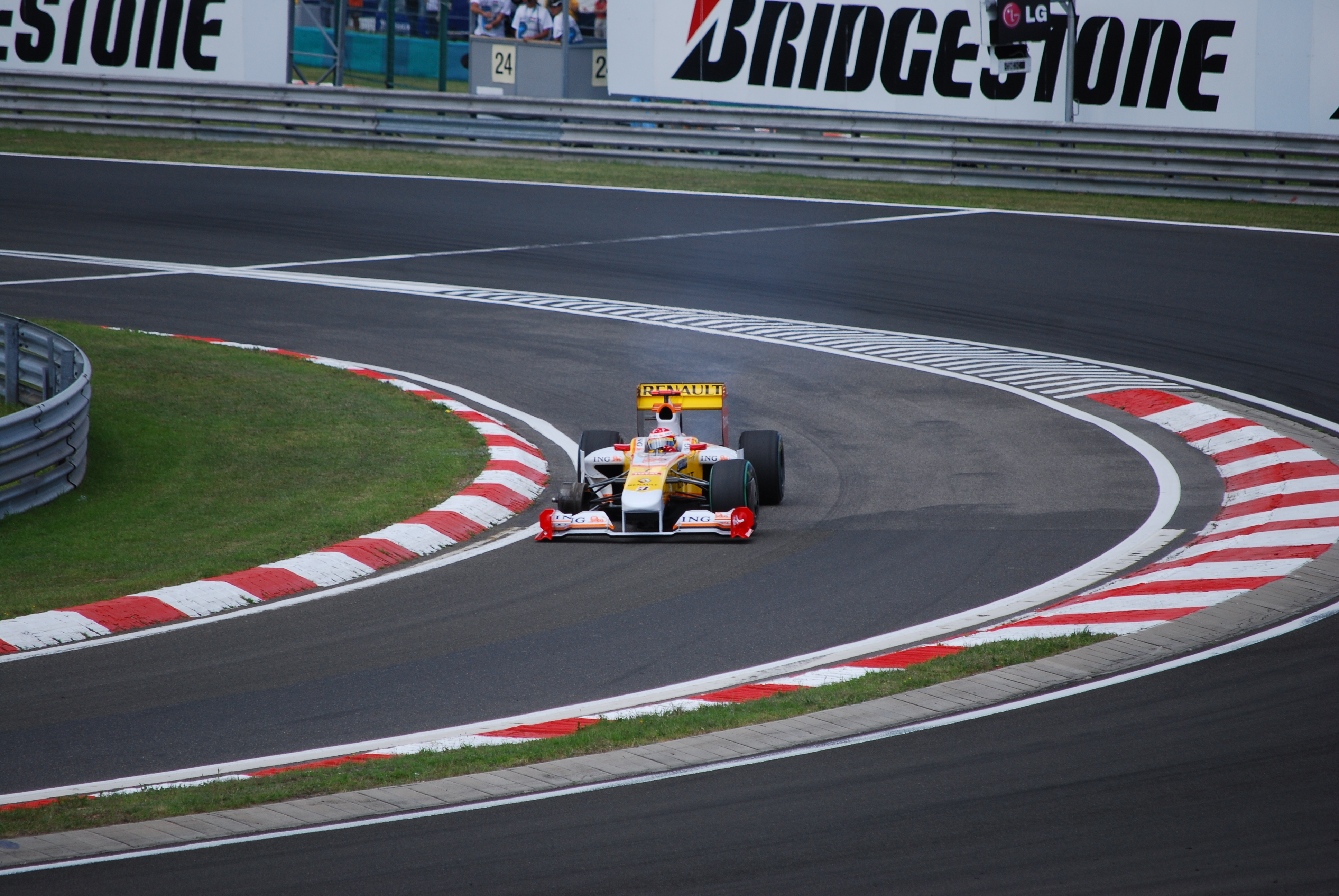 Fernando Alonso driving the car back to the pits on three wheels during 2009 Hungarian Grand Prix